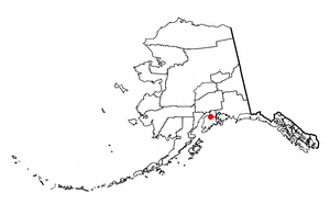 Adapted from Wikipedia's AK borough maps by Seth Ilys.